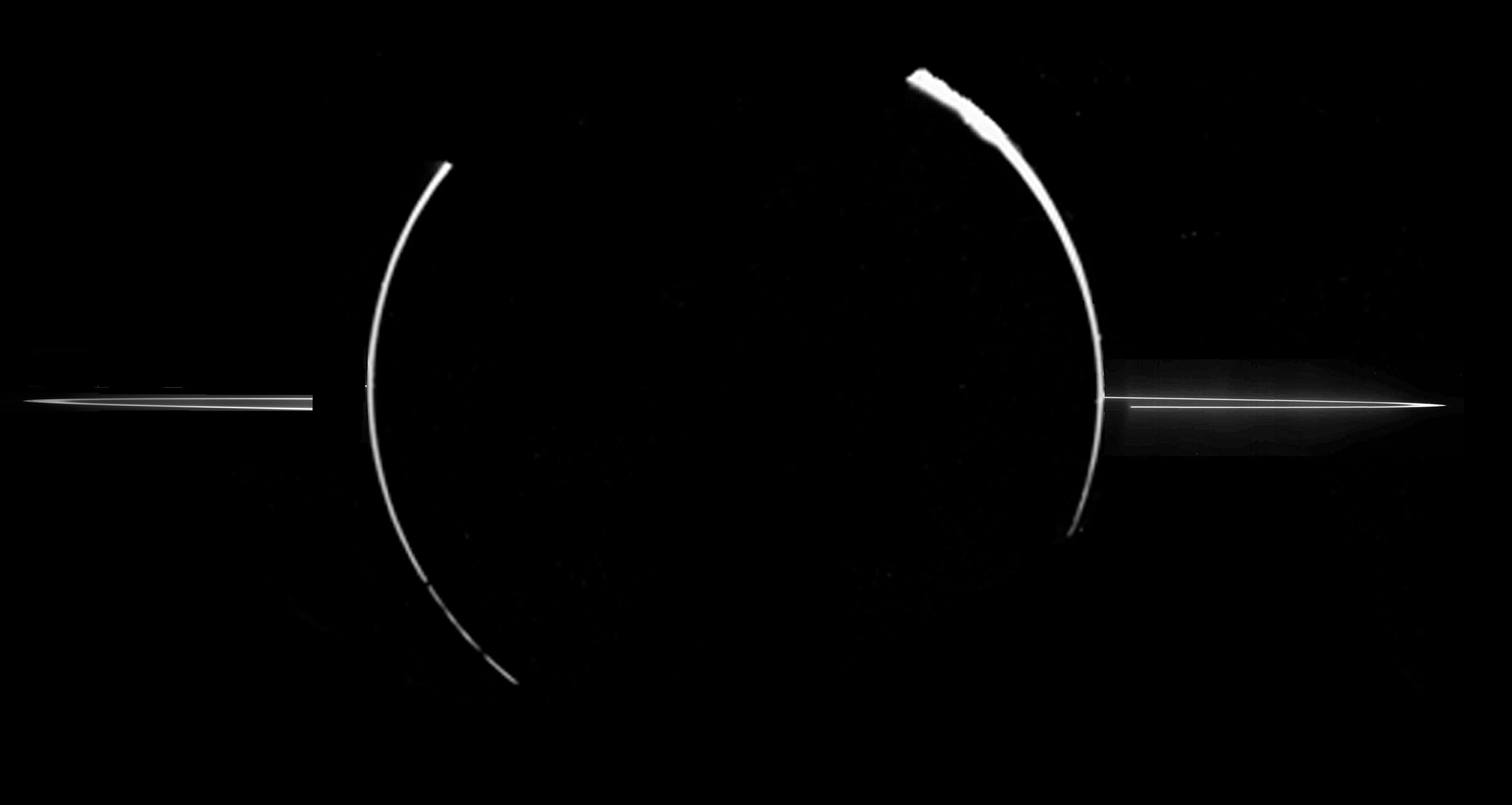 This mosaic of Jupiter's ring system was acquired by NASA's Galileo spacecraft when the Sun was behind the planet, and the spacecraft was in Jupiter's shadow peering back toward the Sun. In such a configuration, very small dust-sized particles are accentuated so both the ring particles and the smallest particles in the upper atmosphere of Jupiter are highlighted. Such small particles are believed to have human-scale lifetimes, i.e., very brief compared to the solar system's age. Jupiter's ring system is composed of three parts: a flat main ring, a toroidal halo interior to the main ring, and the gossamer ring, which lies exterior to the main ring. Only the main ring and a hint of the surrounding halo can be seen in this mosaic. In order to see the less dense components (the outer halo and gossamer ring) the images must be overexposed with respect to the main ring. This composite of two mosaics was taken through the clear filter (610 nanometers) of the solid state imaging (CCD) system on November 9, 1996, during Galileo's third orbit of Jupiter. The ring was approximately 2,300,000 kilometers away. The resolution is approximately 46 kilometers per picture element from right to left; however, because the spacecraft was only about 0.5 degrees above the ring plane, the image is highly foreshortened in the vertical direction. The vertical bright arcs in the middle of the ring mosaics show the edges of Jupiter and are composed of images obtained by NASA's Voyager spacecraft in 1979.